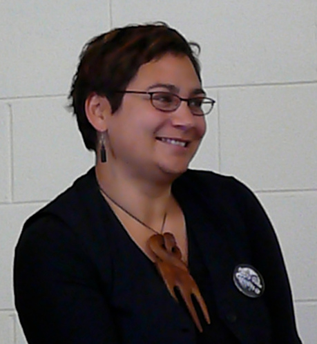 New Zealand Green MP Metiria Turei at the Knox Church election forum